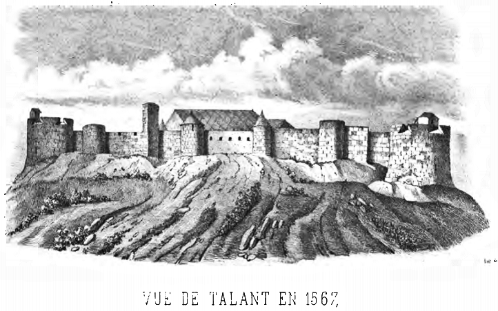 This image comes from : Mémoire de la commission des antiquités du département de la Côte-d’Or, T. III, années 1847-1852